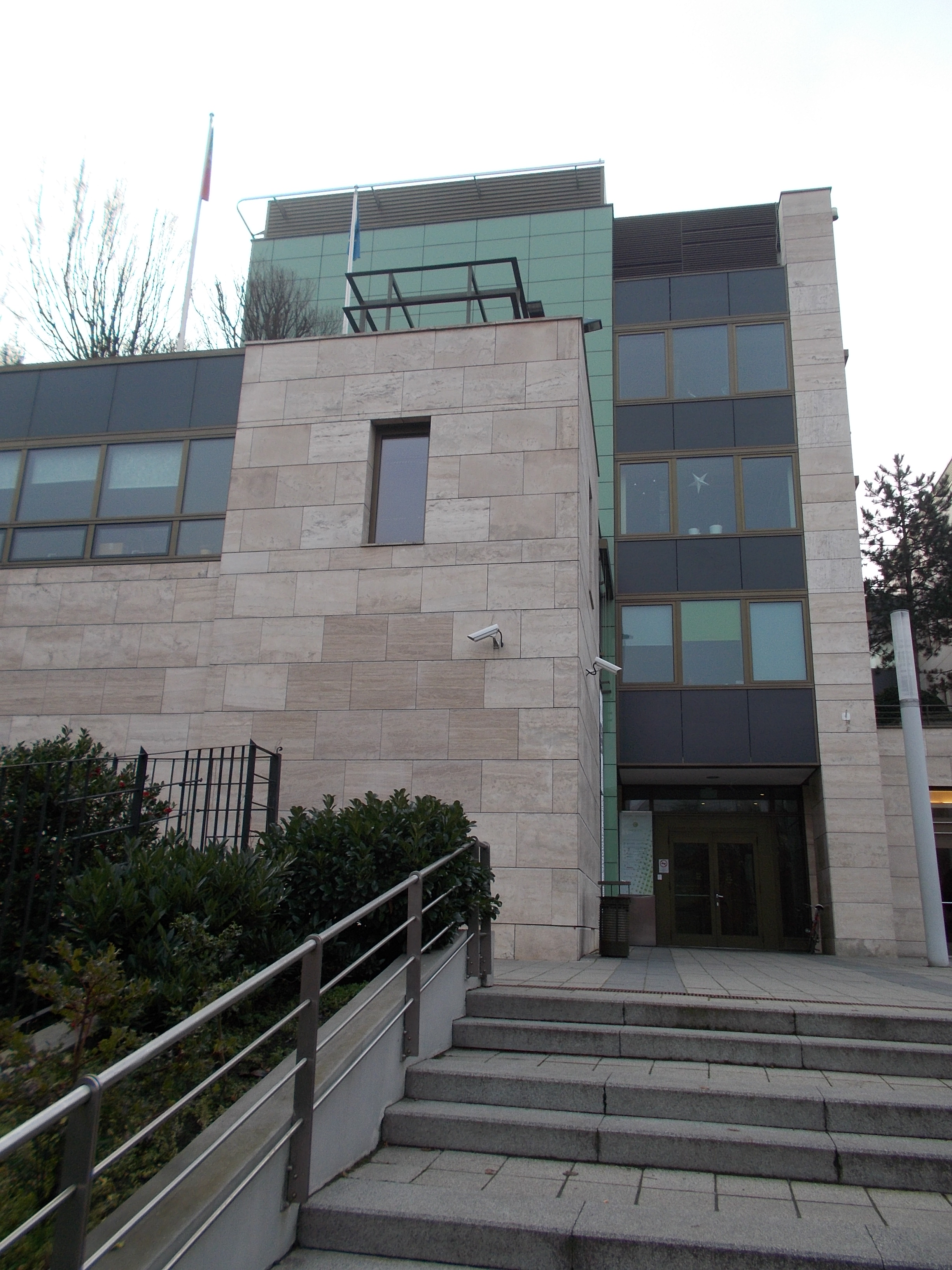 MOM Park Shopping Center inner garden office buildings and dwelling estates - Alkotás street-Csörsz street-Dolgos street, Hegyvidék, district XII, Budapest, Hungary